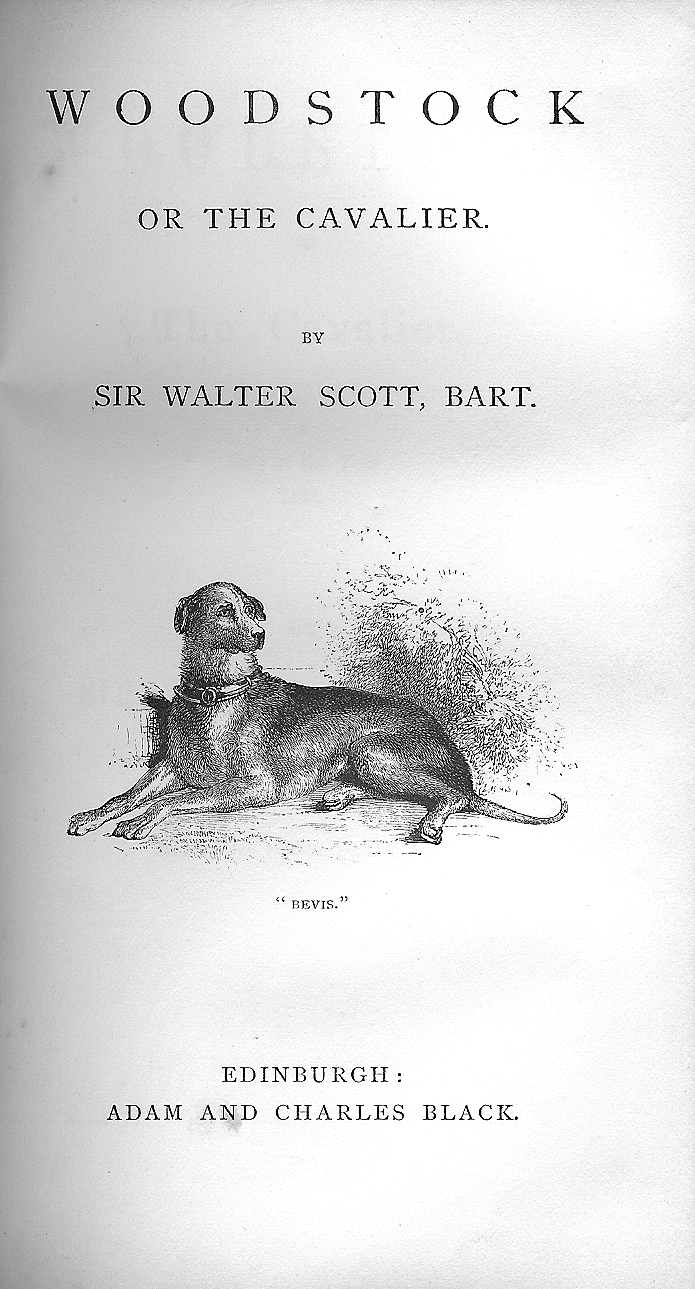 Frontispiece to Woodstock by Walter Scott. Cropped to show printed area as clenaly as possible. This page occurs about halfway through the volume, which also contains a frontispiece to The Talisman. The caption states " 'Bevis' ". The final paragraph of the novel, and its accompanying footnote, read: "I have only to add that his faithful dog did not survive him many days; and that the image of Bevis lies carved at his master's feet, on the tomb which was erected to the memory of Sir Henry Lee of Ditchley. "[Footnote: It may interest some readers to know that Bevis, the gallant hound, one of the handsomest and active of the ancient Highland deer-hounds, had his prototype in a dog called Maida, the gift of the late Chief of Glengarry to the author. A beautiful sketch was made by Edwin Landseer, and afterwards engraved. I cannot suppress the avowal of some personal vanity when I mention that a friend, going through Munich, picked up a common snuff-box, such as are sold for one franc, on which was displayed the form of this veteran favourite, simply marked as Der lieblung hund von Walter Scott. Mr. Landseer's painting is at Blair-Adam, the property of my venerable friend, the Right Honourable Lord Chief Commissioner Adam.]"